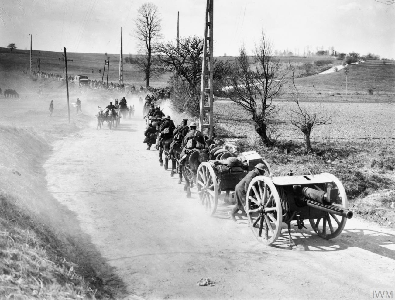 The German Spring Offensive, March-july 1918 A battery of 18-pounder guns of the Royal Field Artillery moving up towards Mailly-Maillet to meet the German advance, 26 March 1918.